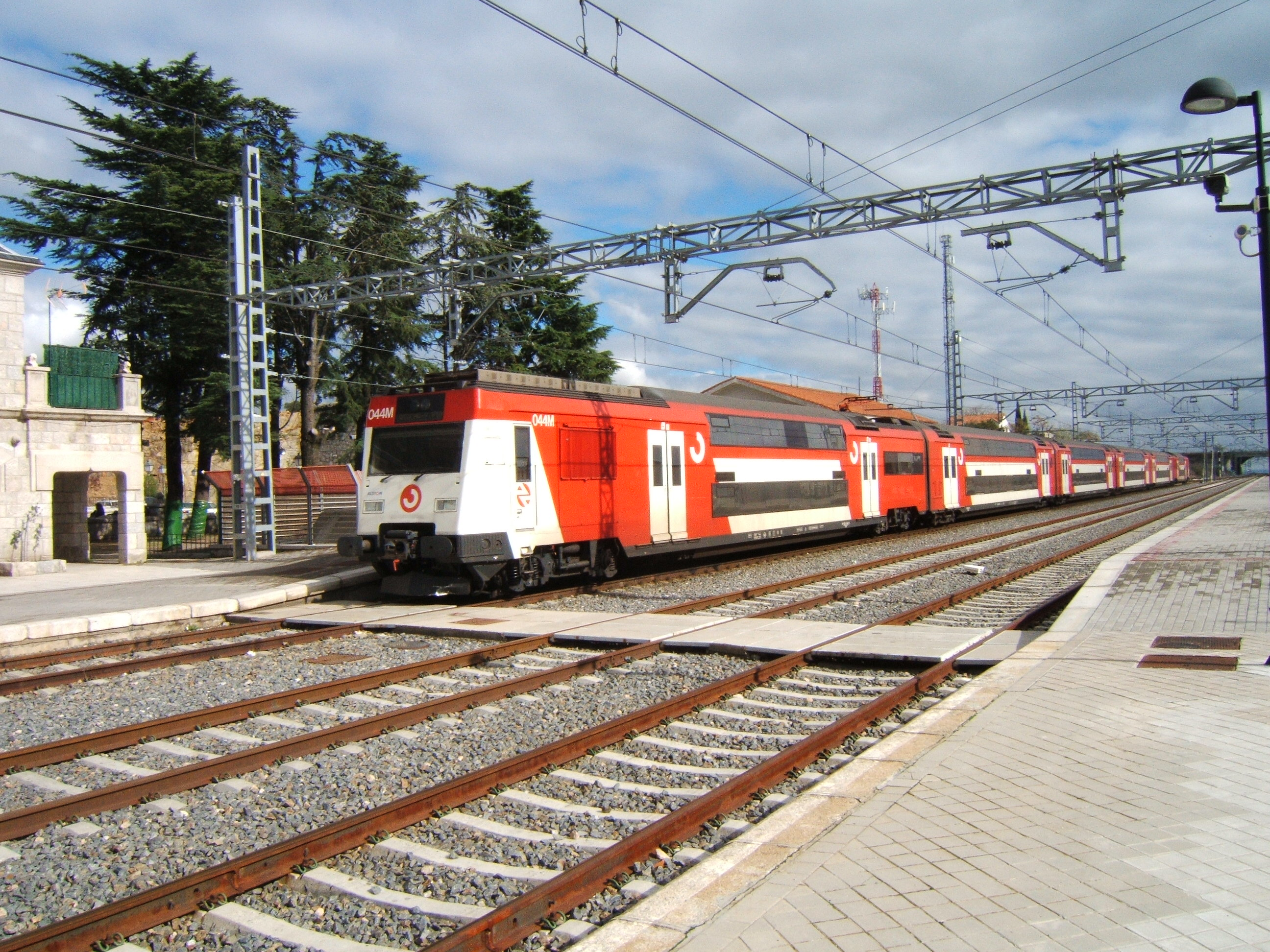 RENFE Class 450 at the Cercanías terminus of Colmenar Viejo.